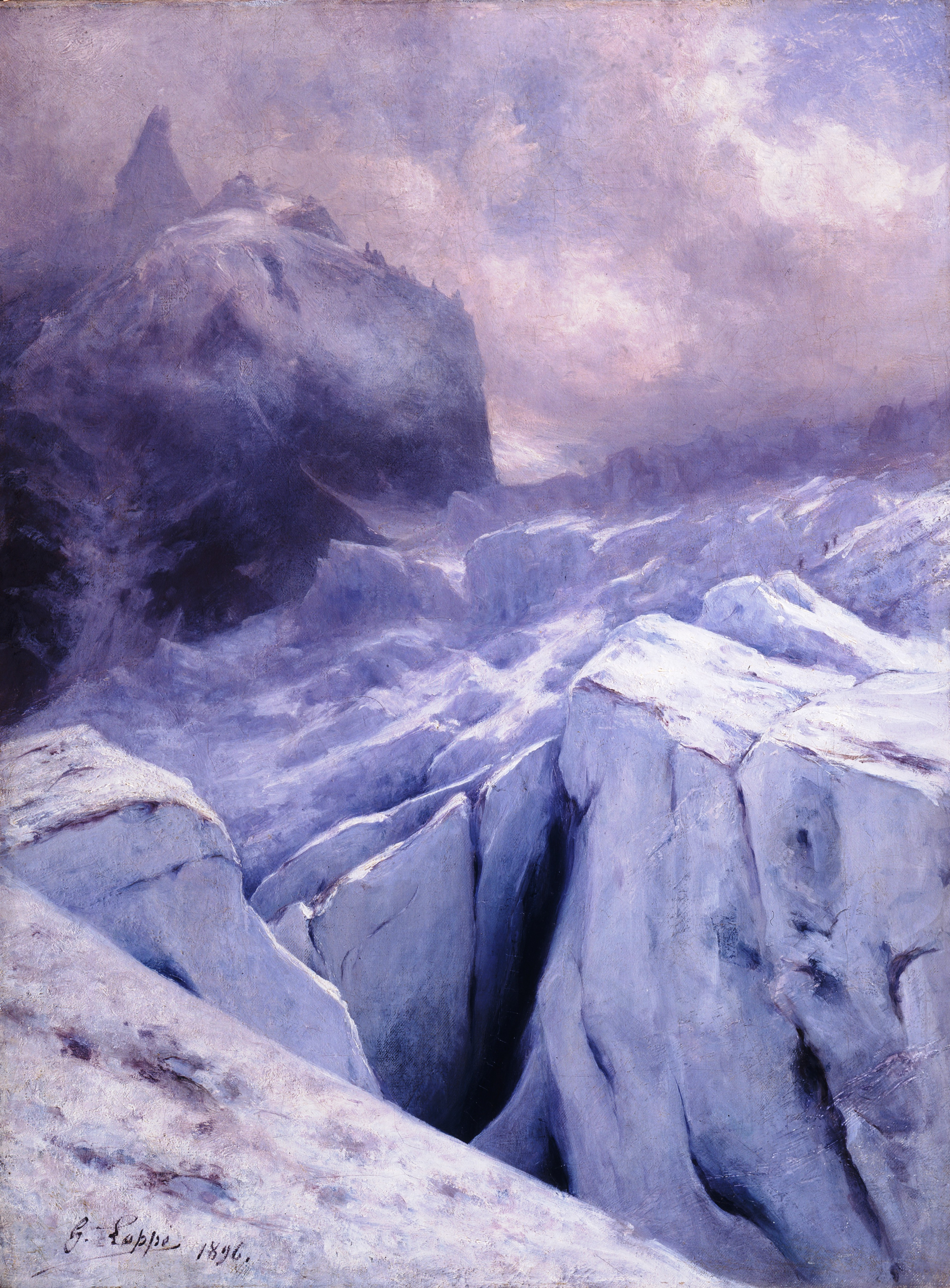 oil on canvasmedium QS:P186,Q296955;P186,Q12321255,P518,Q861259